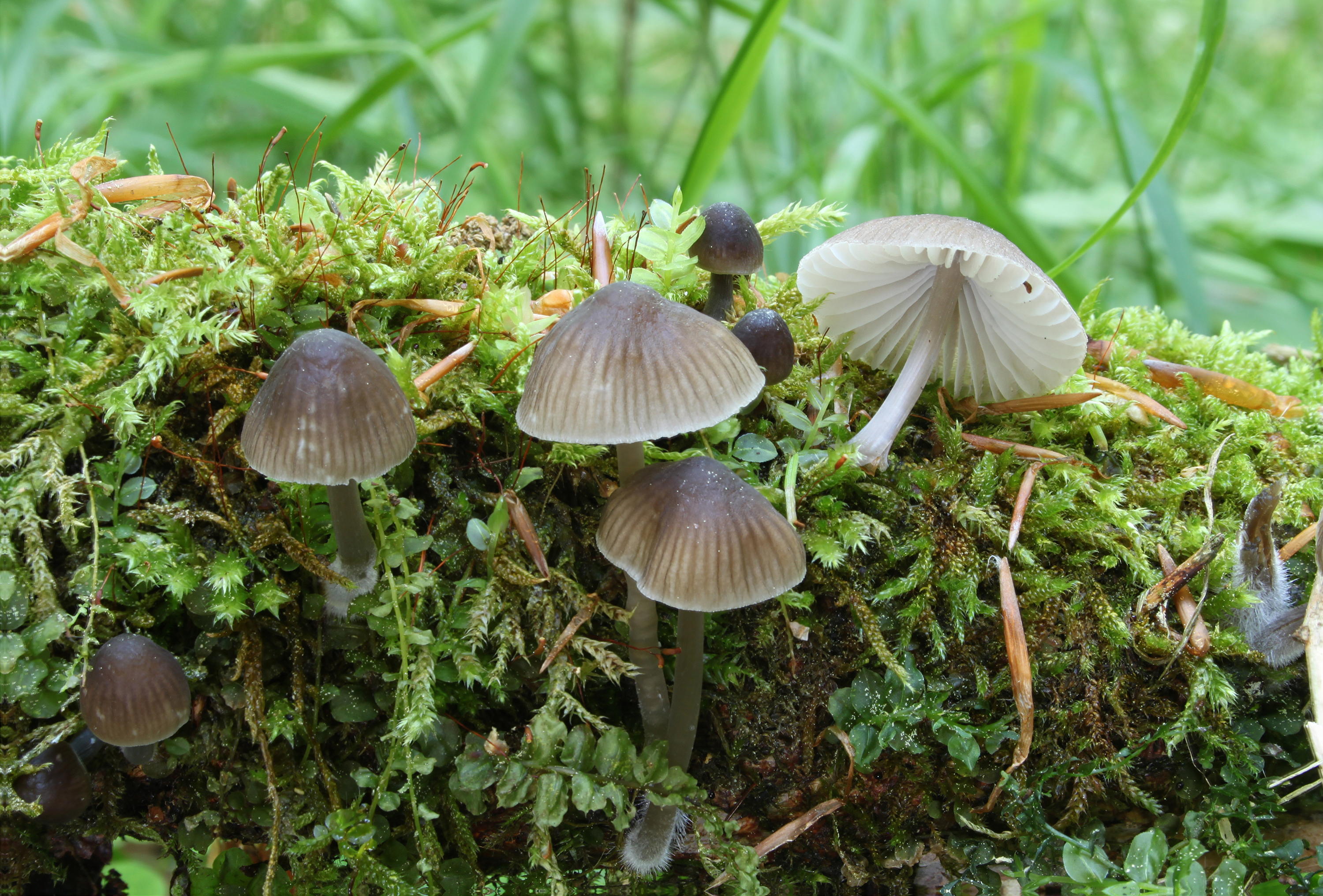 Mycena abramsii, Family: Mycenaceae, Location: Germany, Ulm, Eggingen